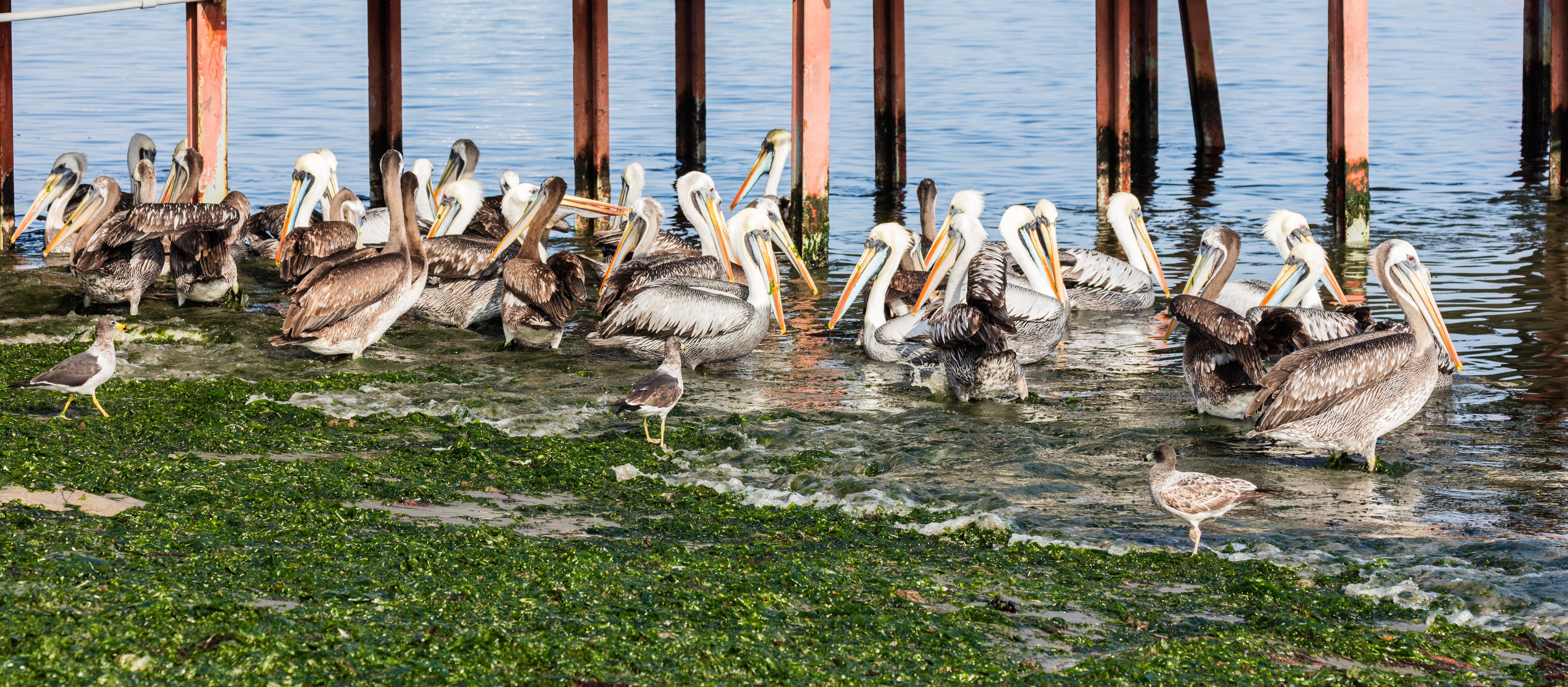 Peruvian pelican (Pelecanus thagus), Port of Paracas, Peru